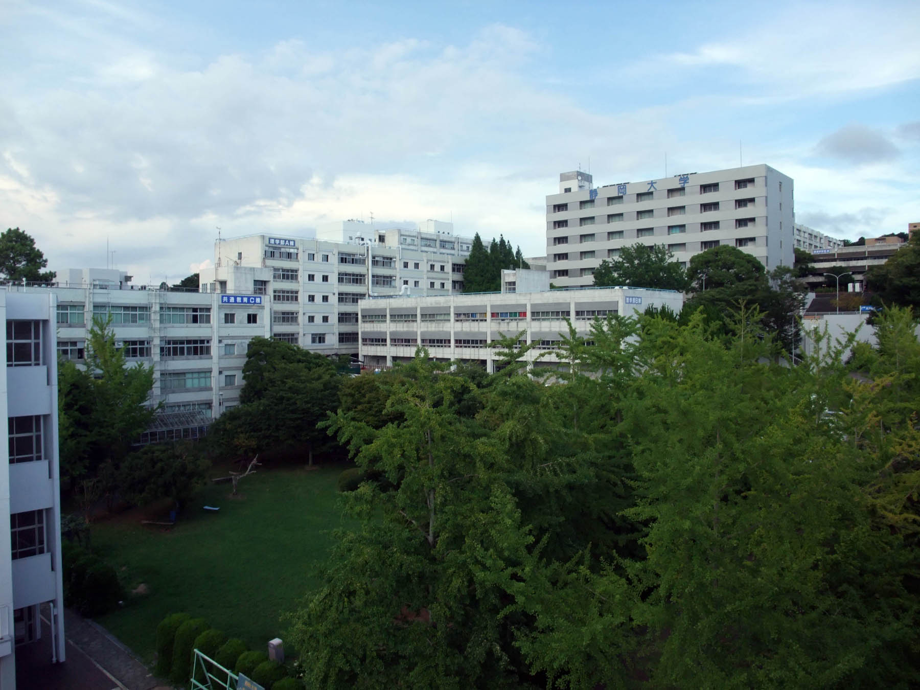 Shizukoka University